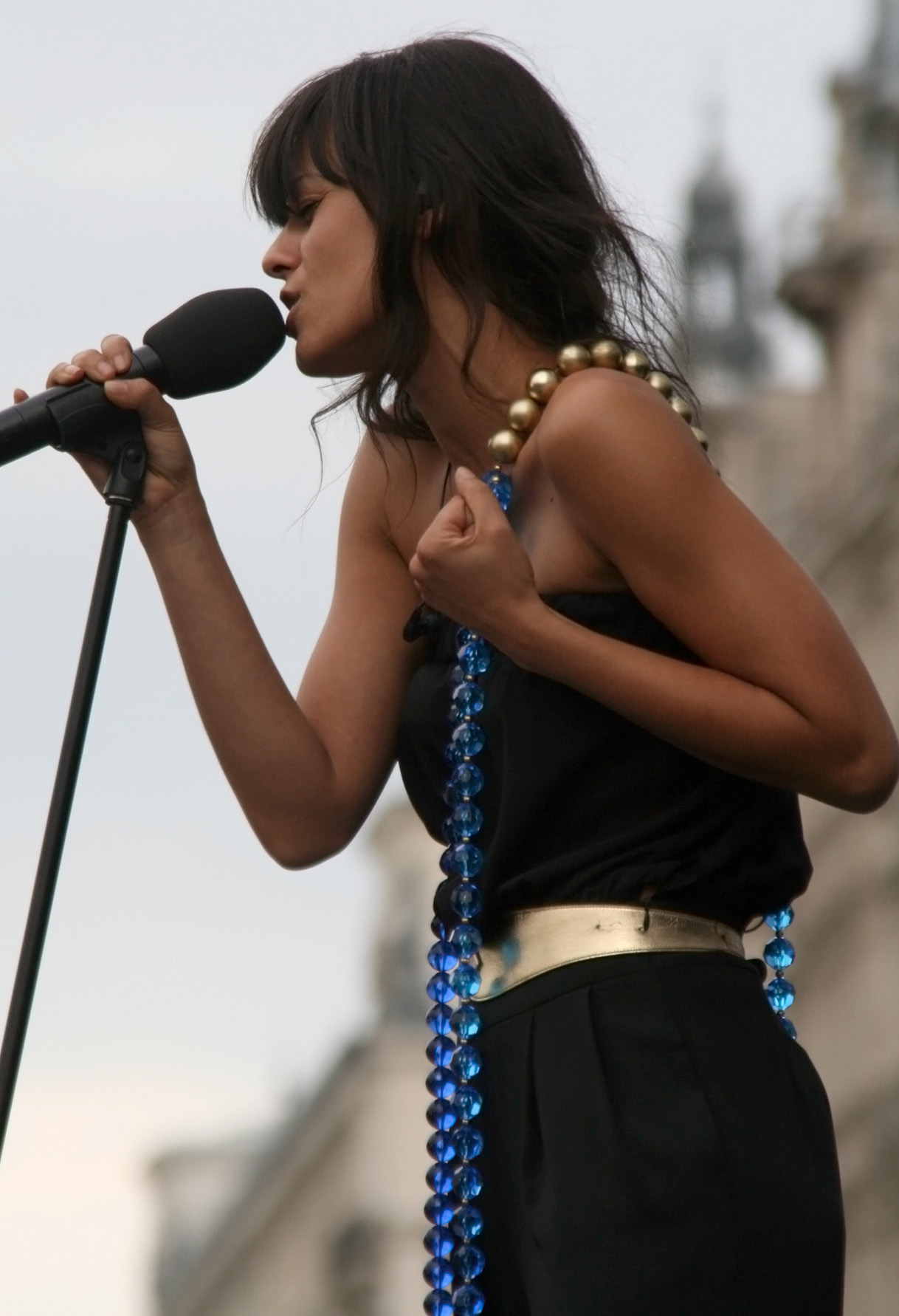 Austrian singer Madita; performance at the Jazz Festival 2008 in Vienna